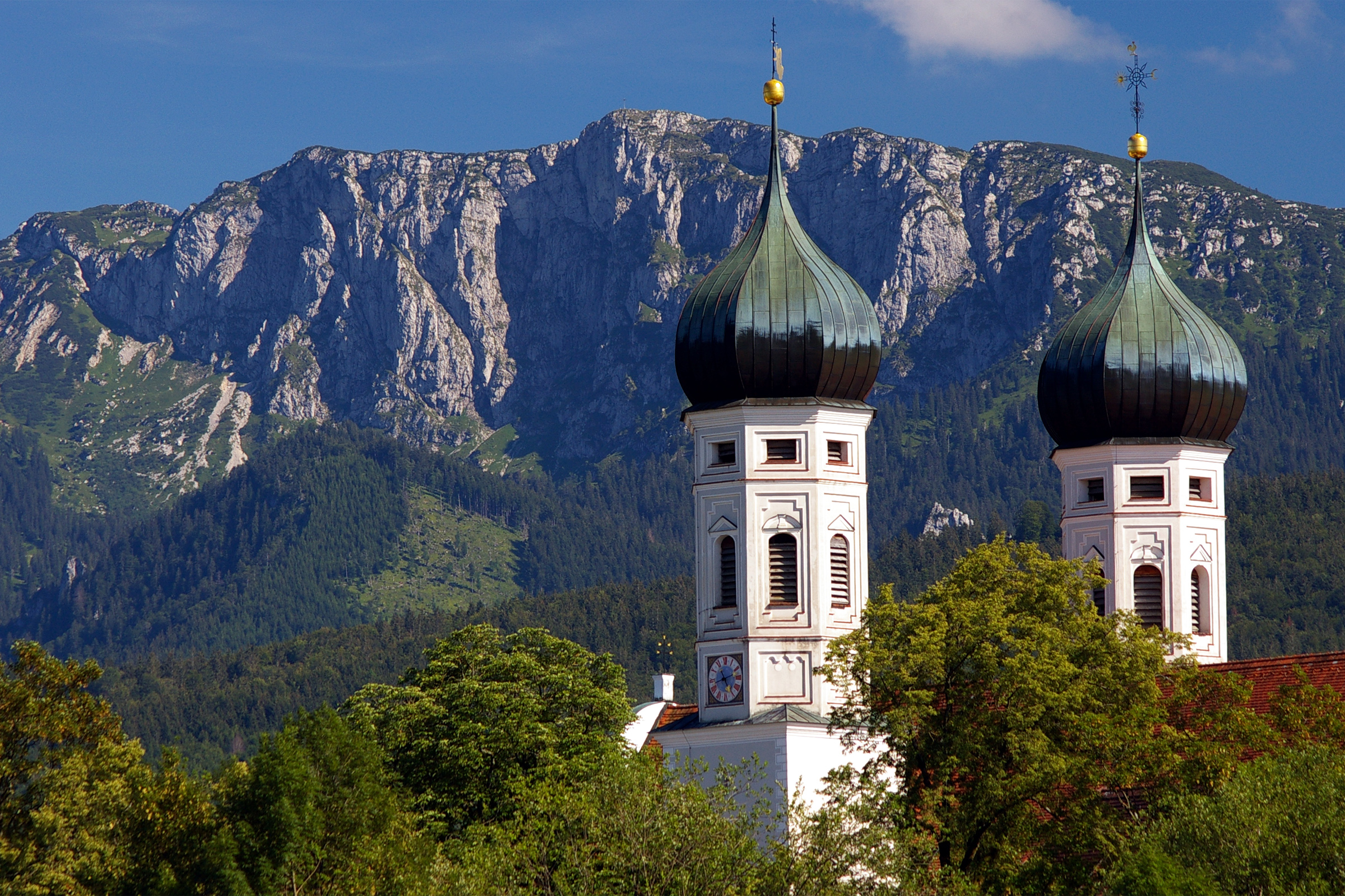 Monastery Benediktbeuern in front of the Benediktenwand.